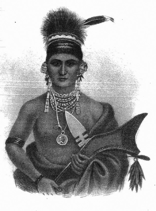 Appanoose